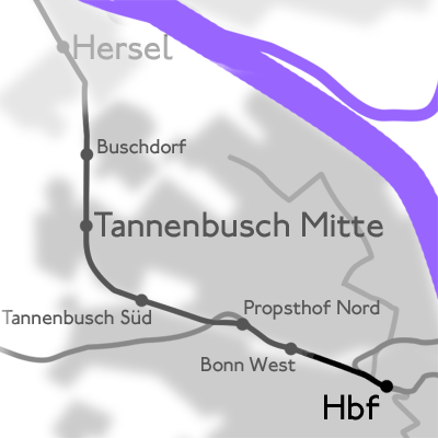 Section of the Rheinuferbahn in Bonn.